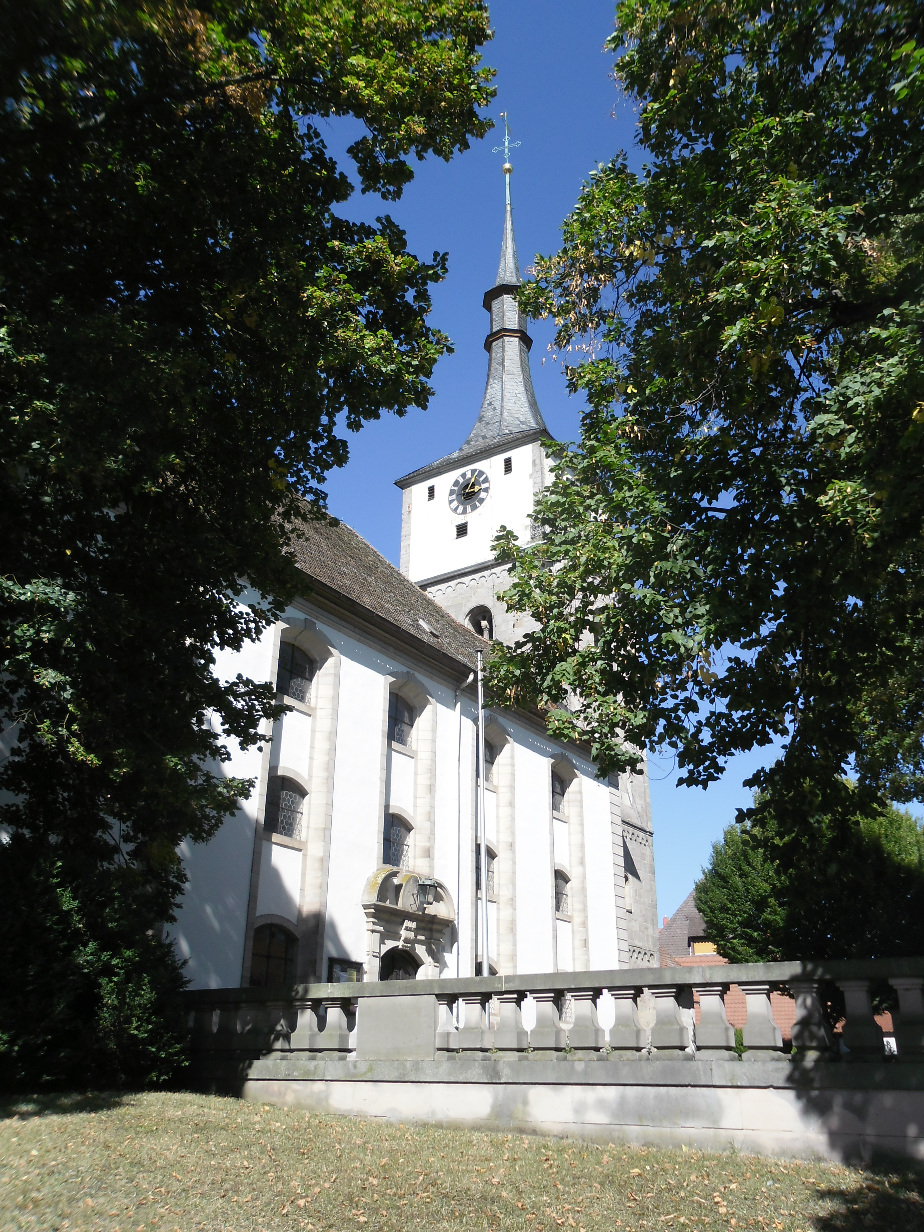 St. Kilian Church on the left bank of the Aurach